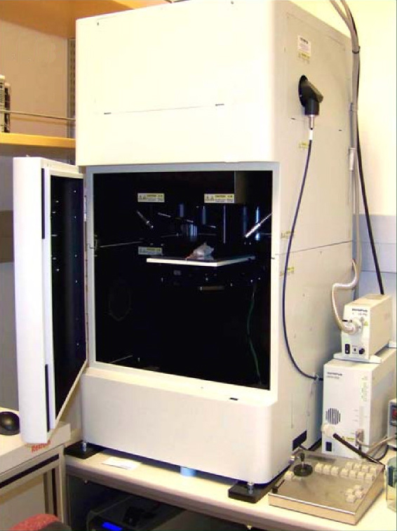 Olympus OV100, in vivo fluorescence molecular imaging systems for small animals